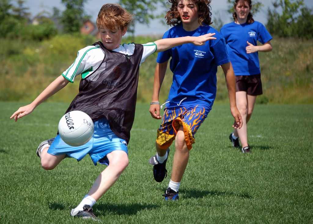 Children playing Gaelic football. Friendly game during the Durham Robert Emmets Invitational Tournament, Ajax, Ontario, Canada.